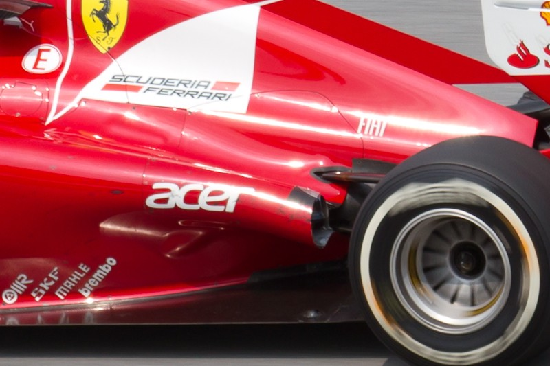 Formula One 2012 Rd.2 Malaysian GP: Ferrari F2012's exhaust.